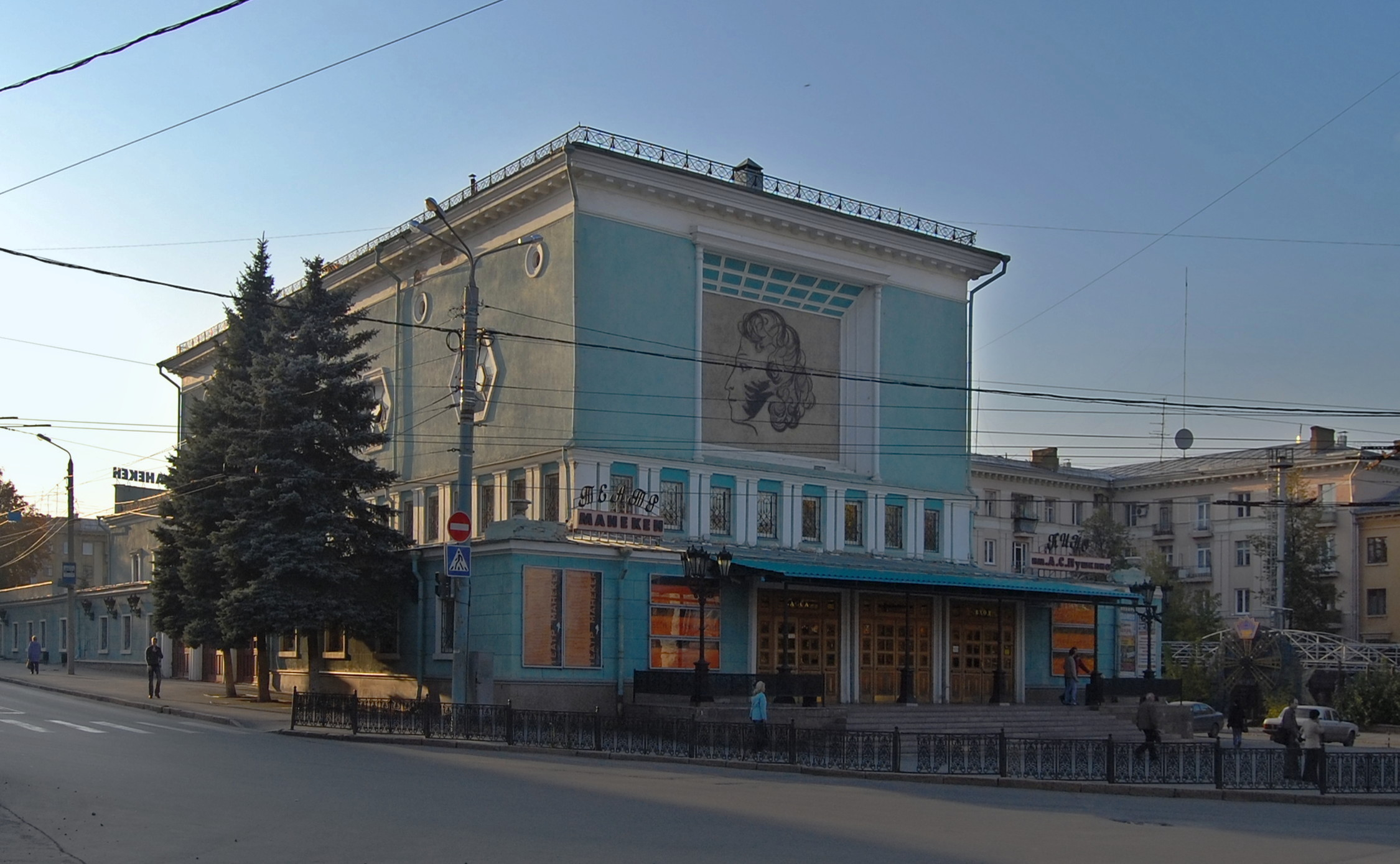 Centre of arts “Teatr + Kino” (“Theatre + Cinema”) in Chelyabinsk, Russia